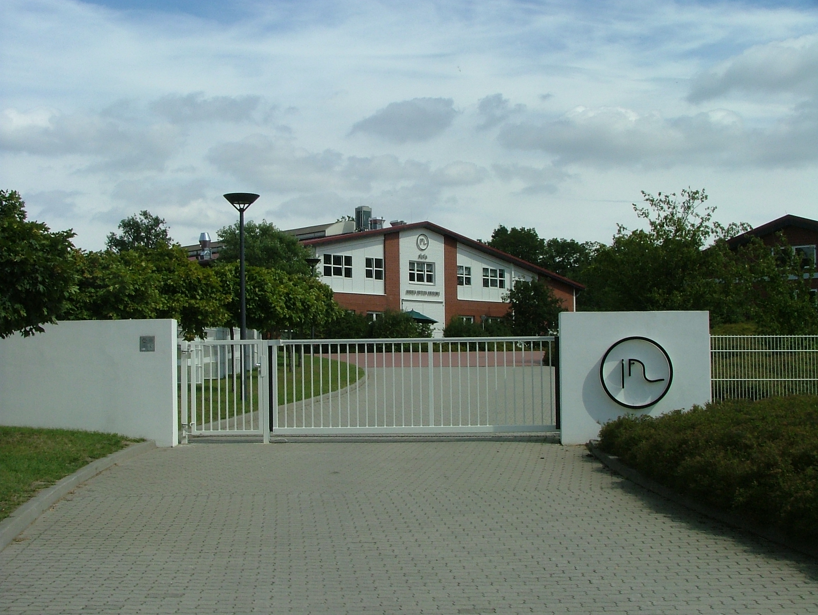 Academe of german horse whisperer Andrea Kutsch